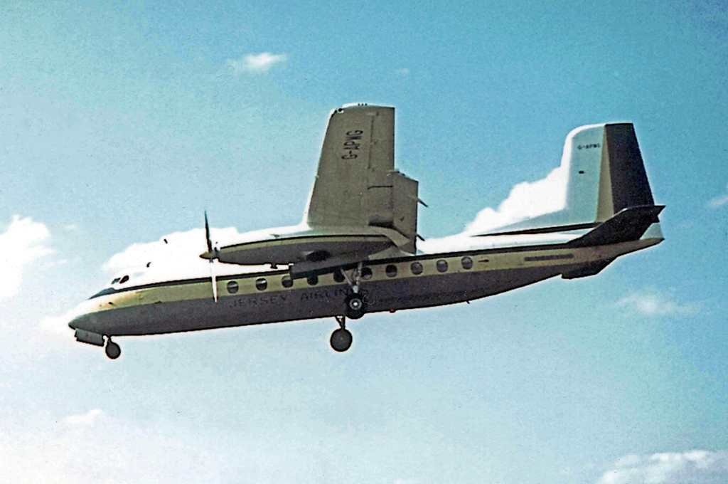 Handley Page HPR.7 Herald 201 G-APWG of Jersey Airlines landing at Manchester (Ringway) Airport